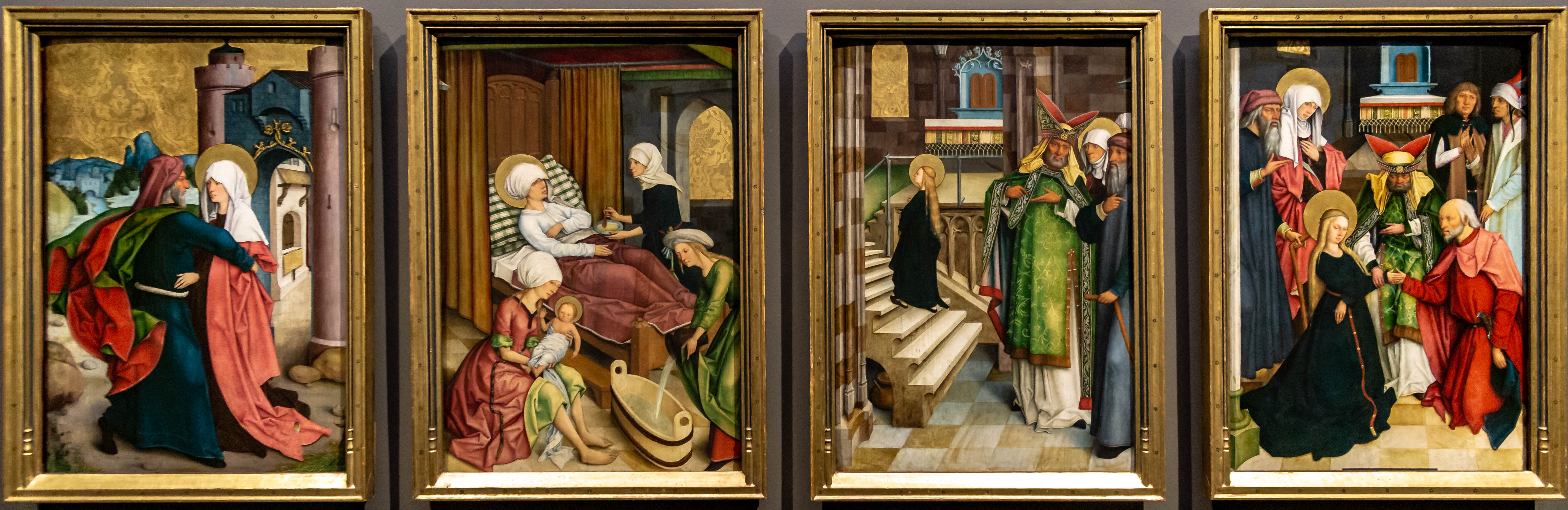 Pfullendorf Altar - The Meeting of Joachim and Anna at the Golden Gate; The Birth of the Virgin; The Presentation of the Virgin in the Temple; The Betrothal of the Virgin (Panels of the view with the life of the Virgin)